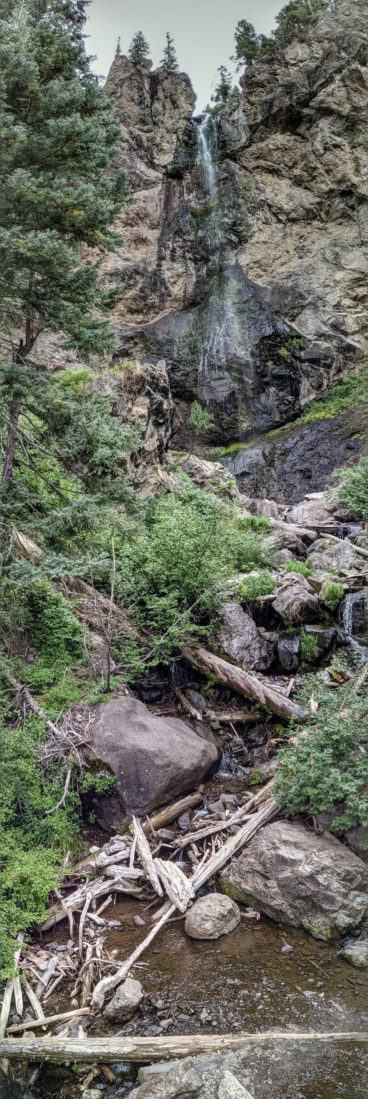 Vertical panoramic view of Treasure Falls and Fall Creek, a tributary of the West Fork of the San Juan River, from the footbridge viewing platform, a shot hike off Colorado Highway 160